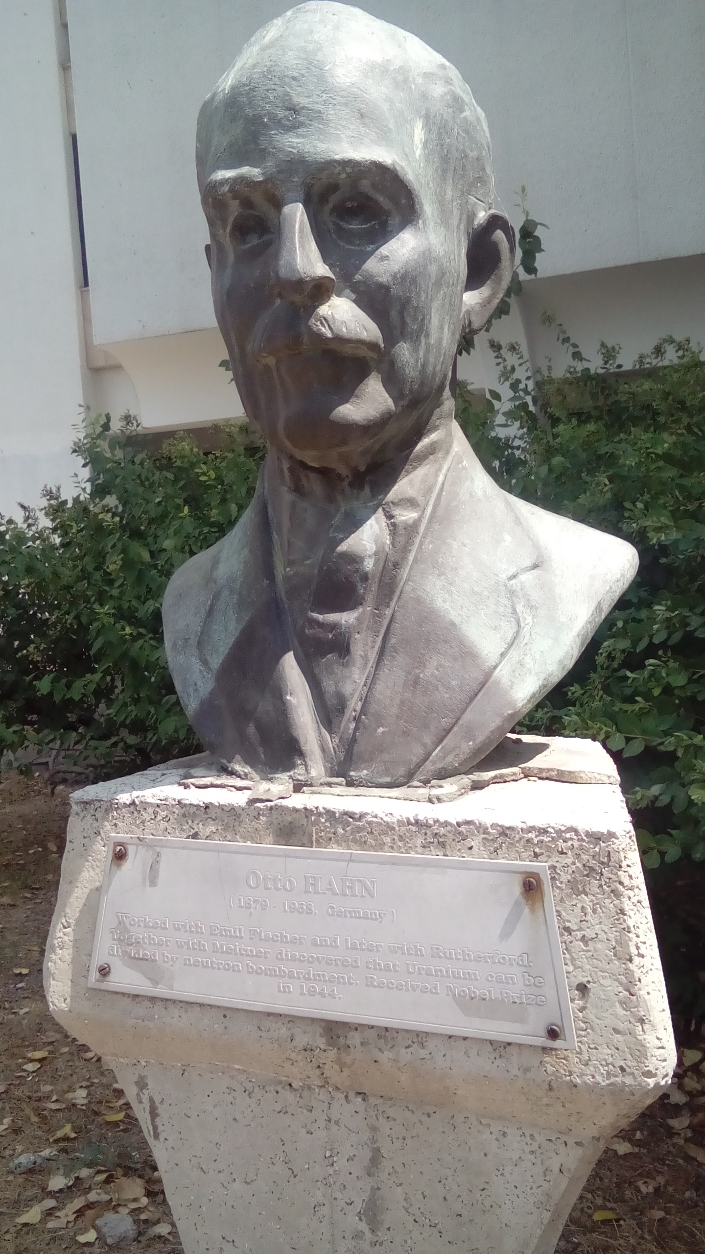 Otto Hahn statue in METU Ankara Turkey